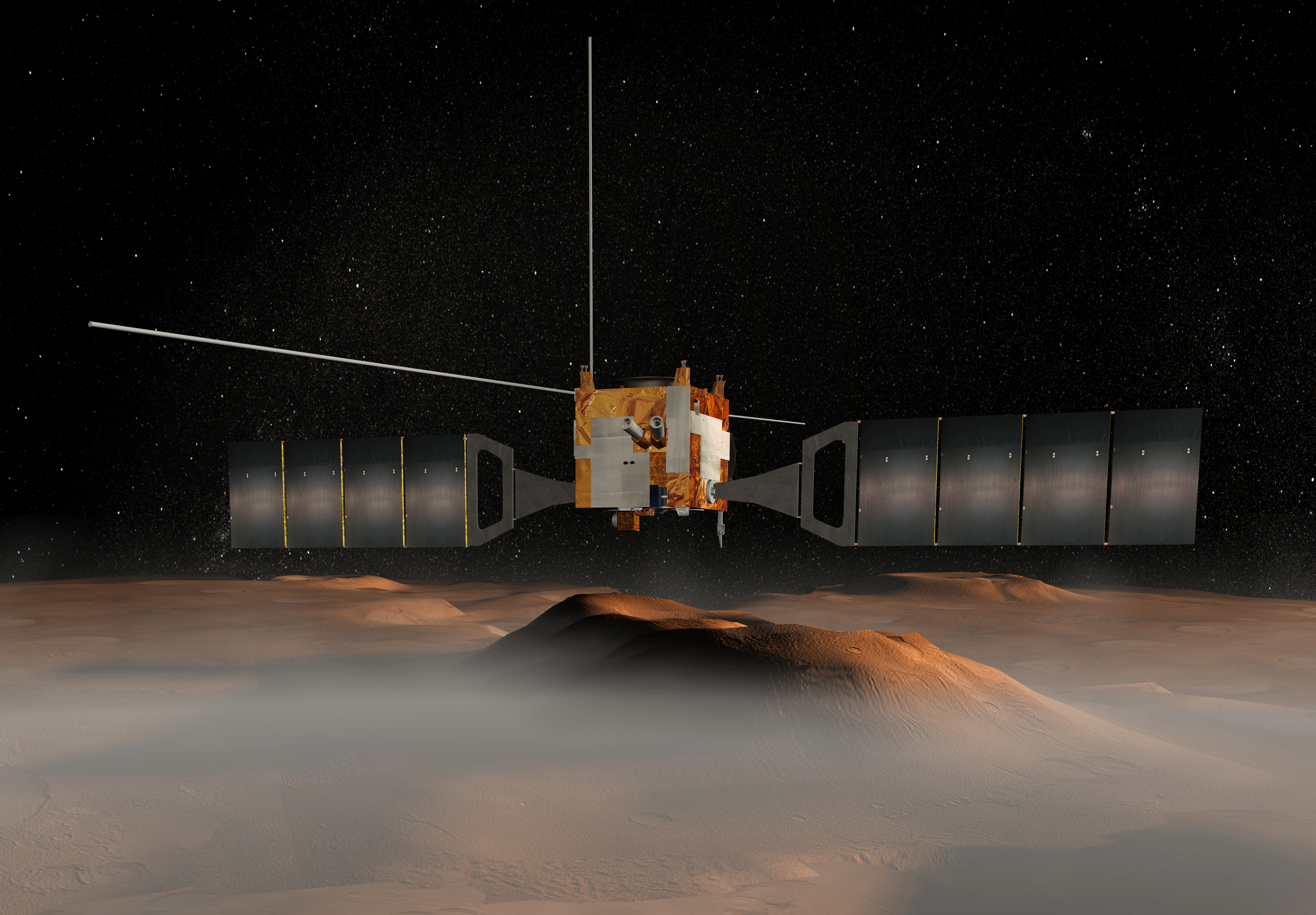 Illustration of ESA's Mars Express over the Tharsis volcanoes.